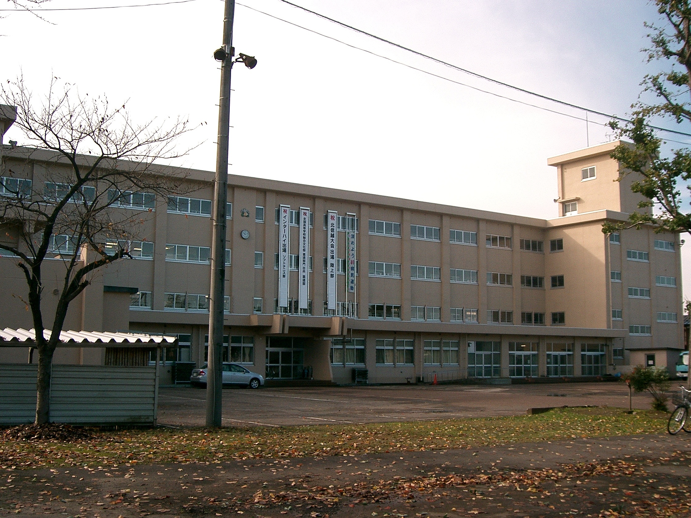 Ojiya High School in Ojiya city, Niigata prefecture, Japan